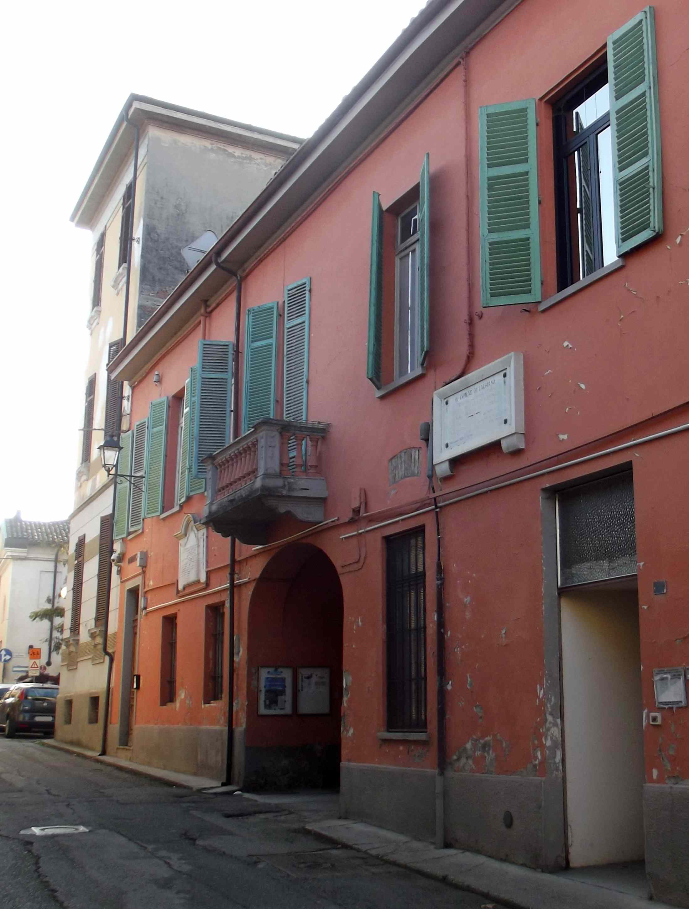 Lauriano (TO, Italy): town hall